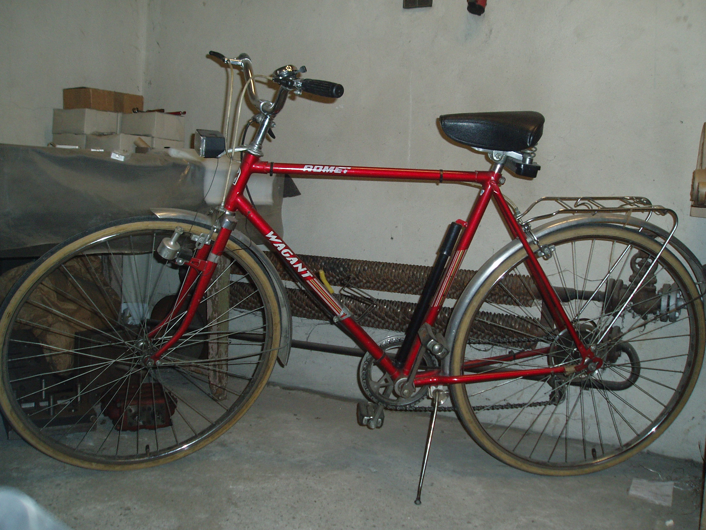 Romet Wagant bicycle.